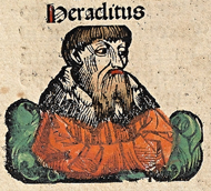 Woodcut from the Nuremberg Chronicle